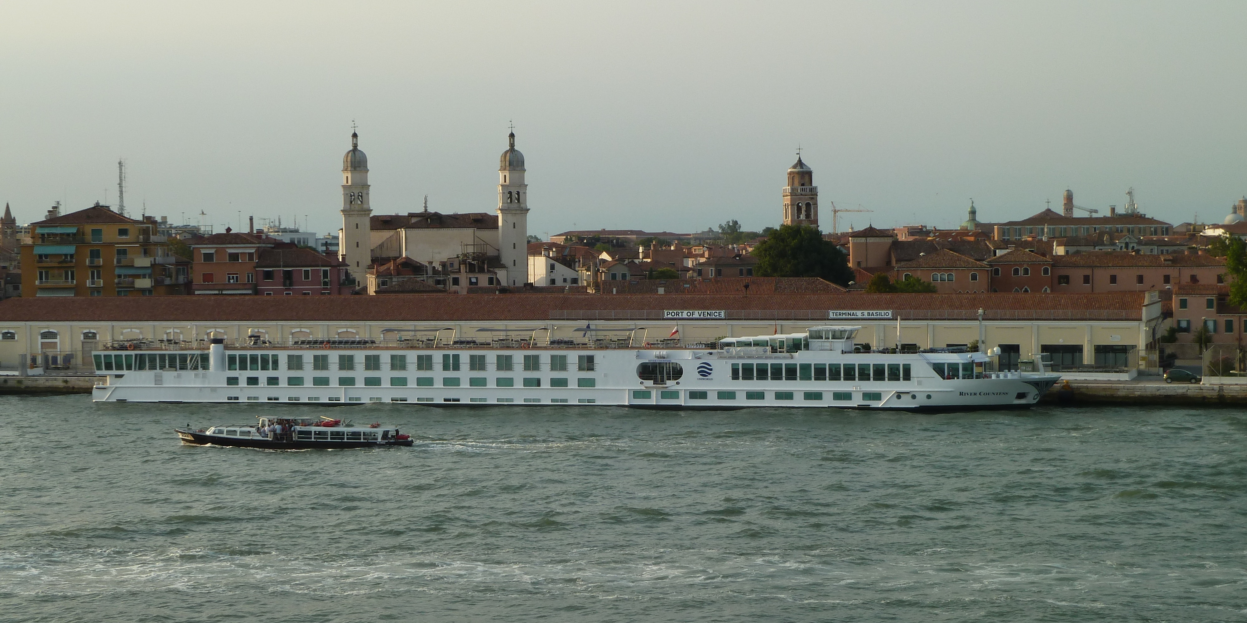 River Countess at S Basilio